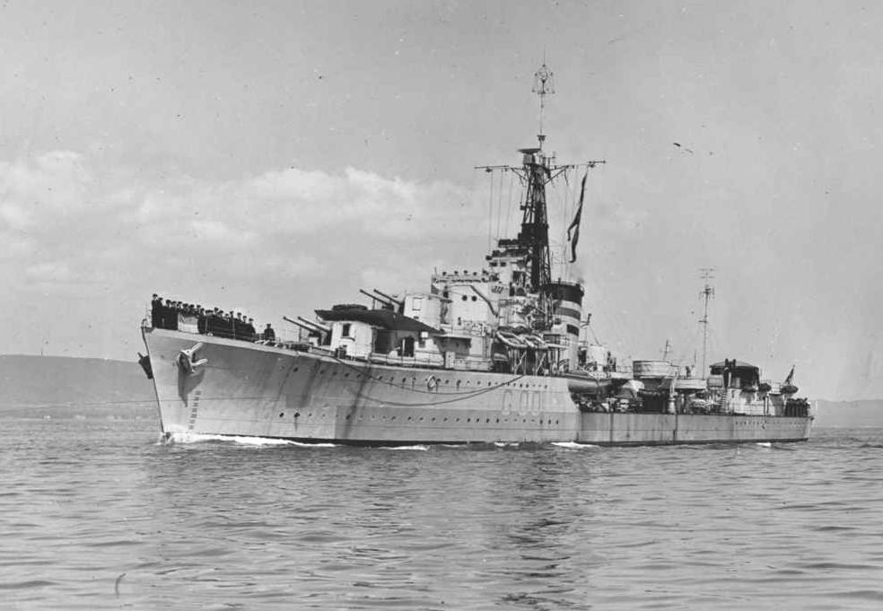 Royal Navy destroyer HMS Jervis in 1945